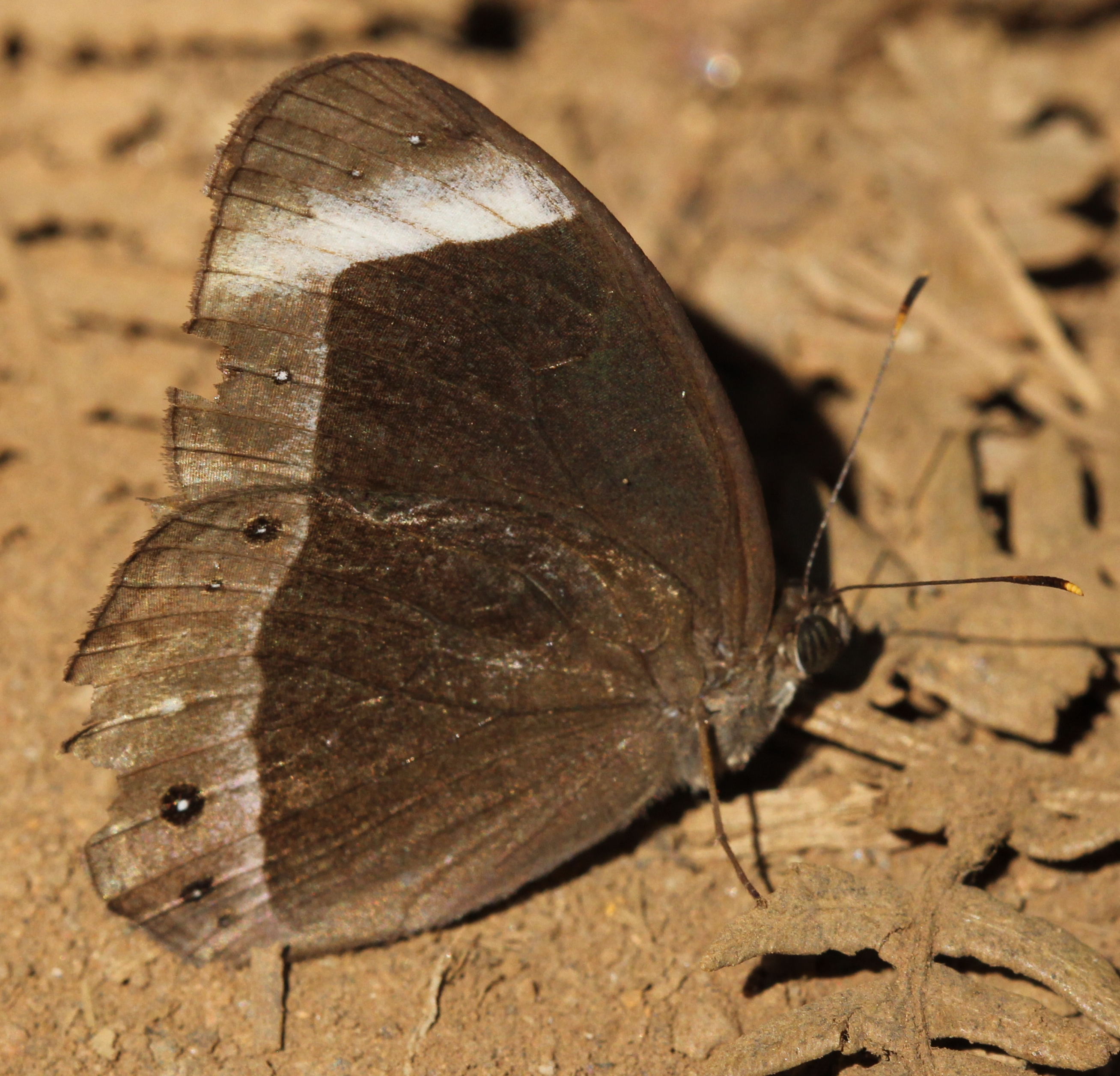 this specimen of white barred bush brown was found puddling in a trek trail.